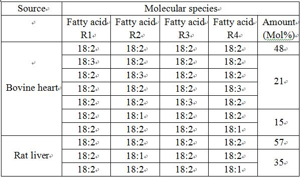 cardiolipin in animals